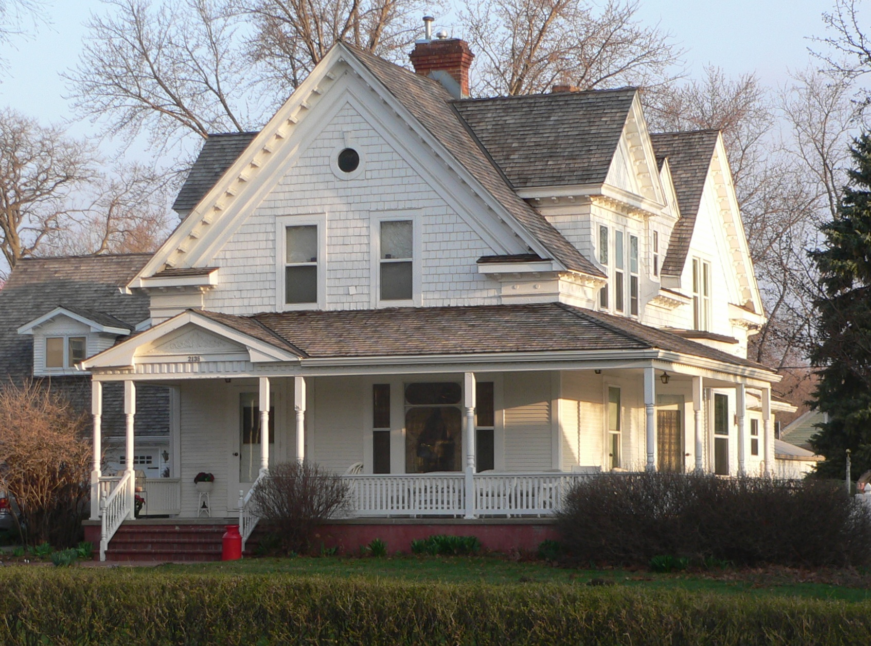 C. C. Crowell, Jr. house, located at 2138 Washington Street in Blair, Nebraska; seen from the southeast.